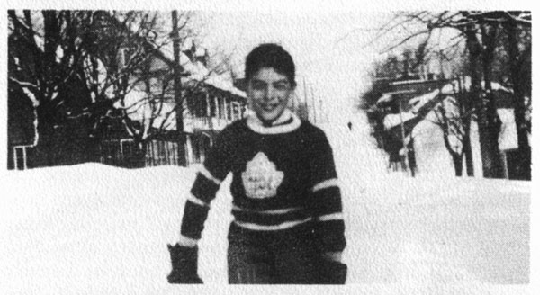 Roch Carrier at age 10, in the Toronto Maple Leafs sweater that spawned his classic children's story The Hockey Sweater. The photograph was taken by Carrier's mother in his hometown of Sainte-Justine-de-Dorchester, Quebec, Canada.